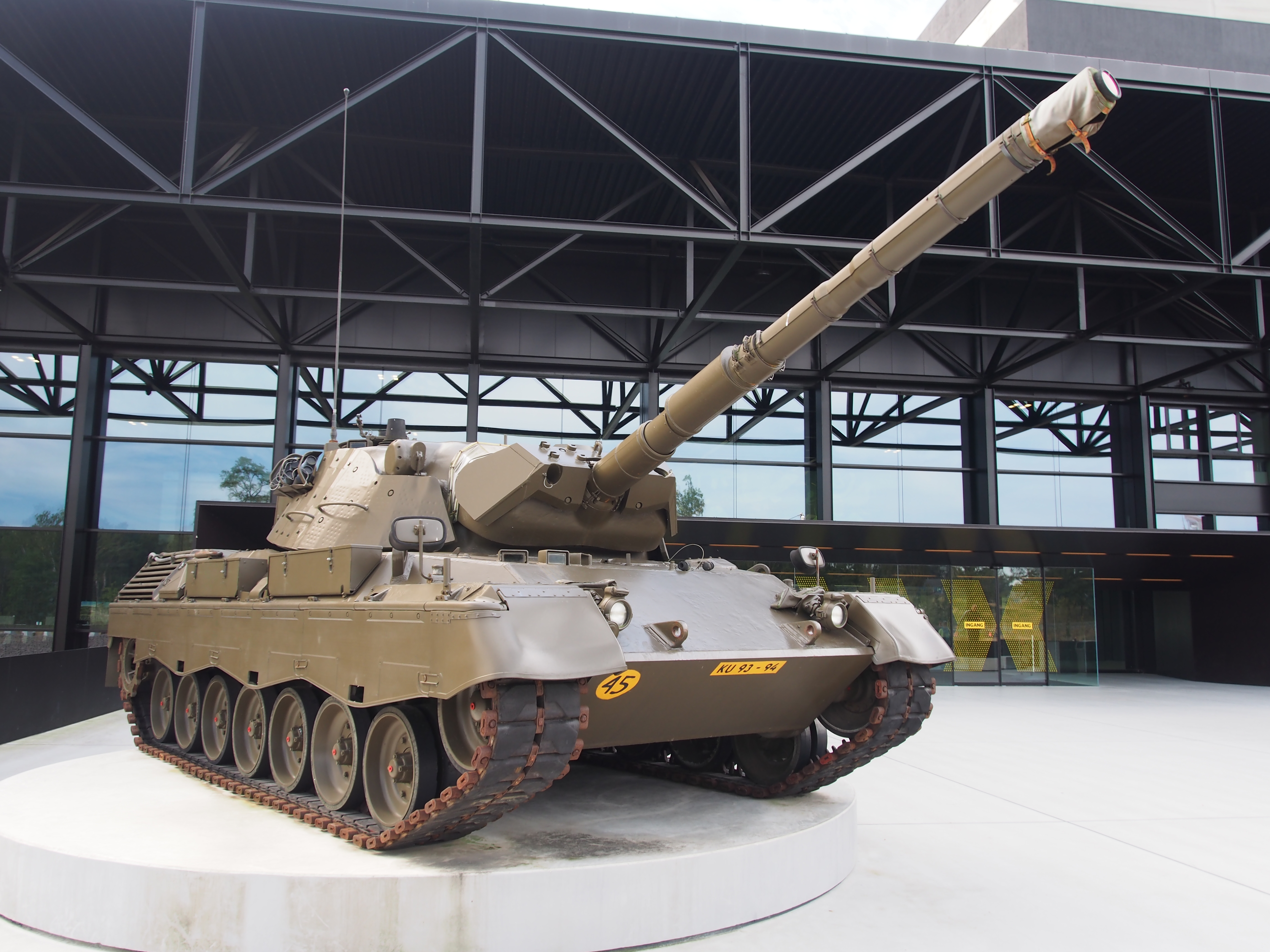 Photographed at the Nationaal Militair Museum, Soesterberg.